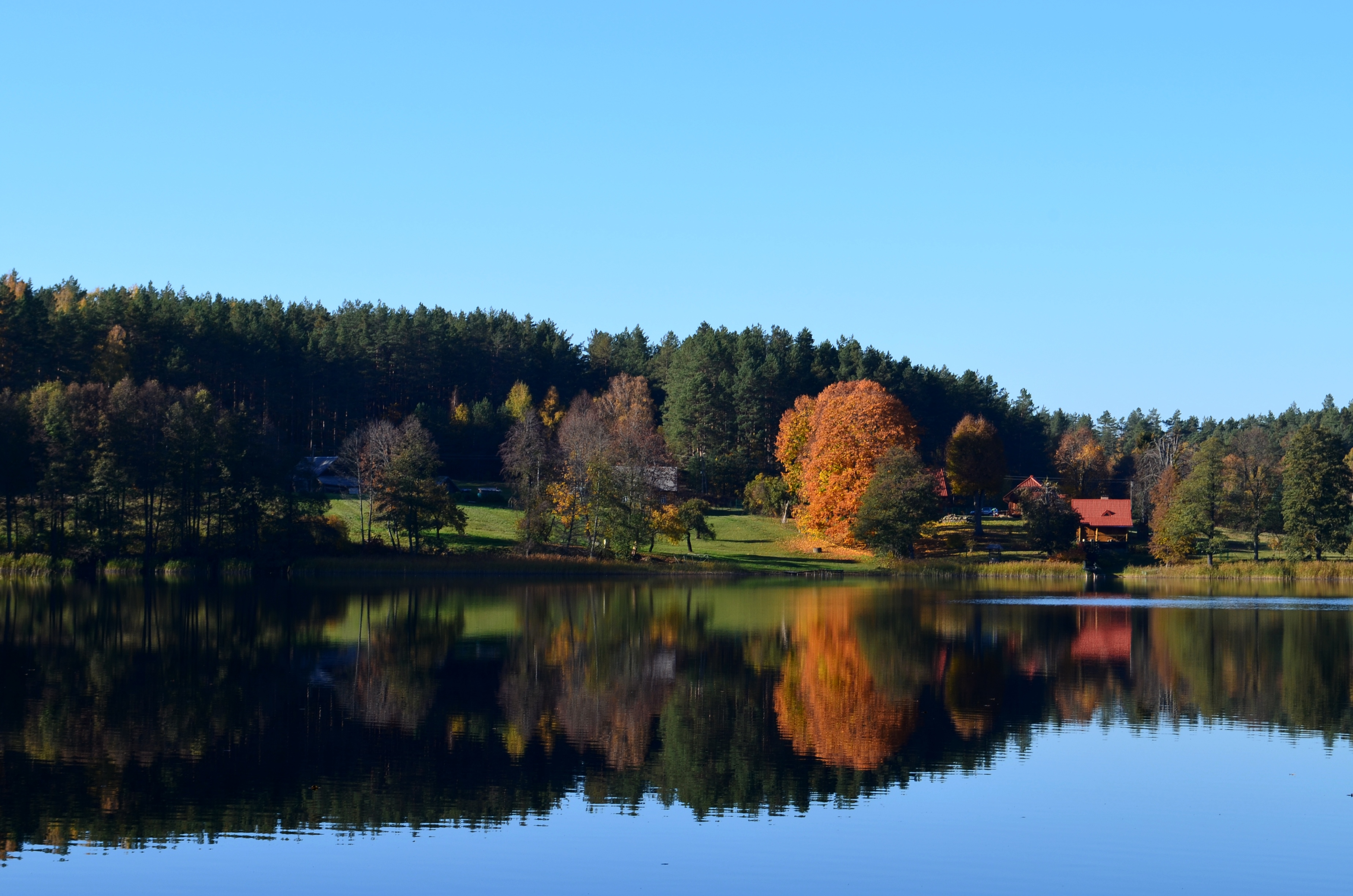 Žvaigždžiakalnis village on the shore of the Aisetas Lake. Molėtai district municipality, Lithuania.